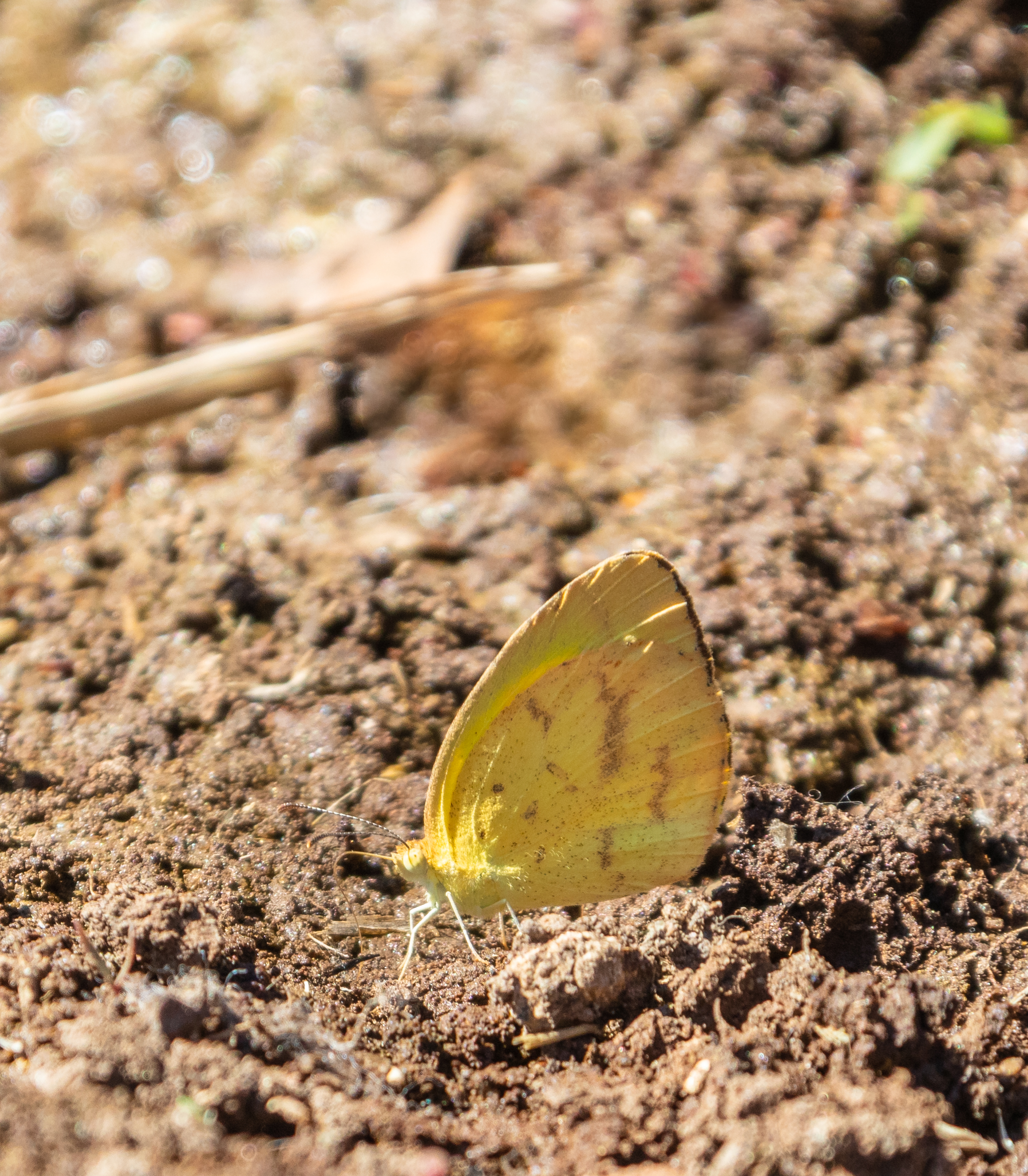 Eurema desjardinsii, Chobe National Park, Botsuana